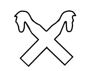 267. Infanterie Division, German Army, World War II